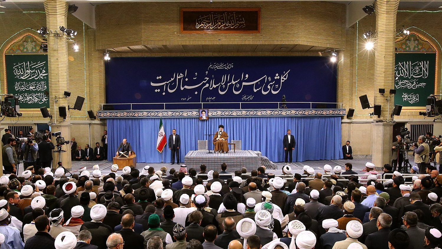 "Lovers of the Ahl al-Bayt and the Takfiris issue" Summit participants meeting with Ali Khamenei, Imam Khomeini Hussainia, Tehran - 23 November 2017. main album